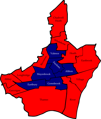 A map of the results of the 2006 Barking and Dagenham Council election. Colour legend by wards won: Labour party British National Party